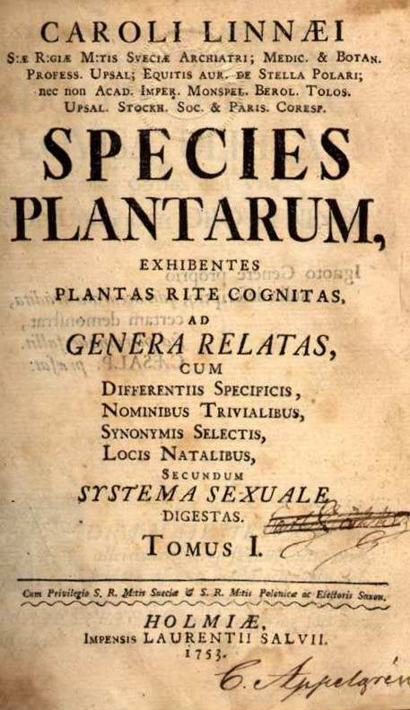 Title page of Carl von Linnés book Species plantarum (1753)